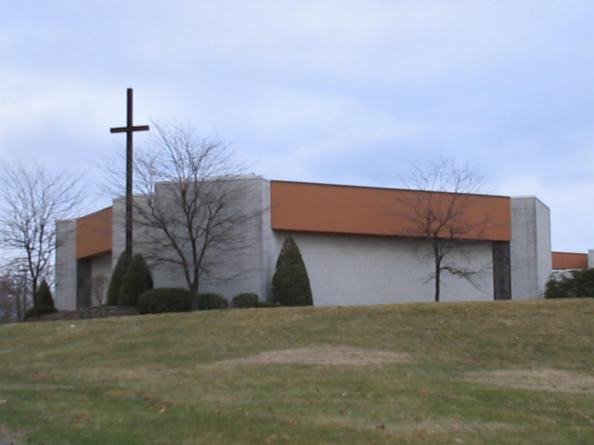 The St. Maria Goretti Church in Laflin, Pennsylvania.